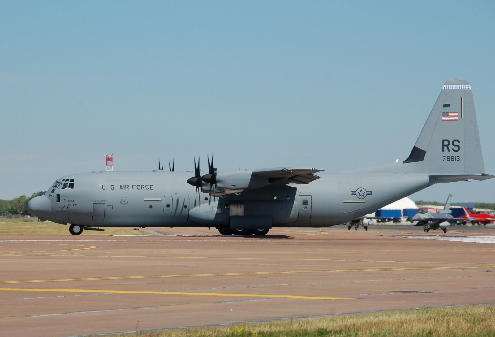 A USAF Lockheed Martin C-130J-30 Hercules taxis to the runway at the 2010 Air Tattoo, Fairford, Gloucestershire, England. The nose marking is 8613/86AW, the fin marking is RS/78613. USAF Serial Number 07-8613. Note: this aircraft has six-bladed props, not four-bladed. The other two are lined up with the nacelle, so not seen.